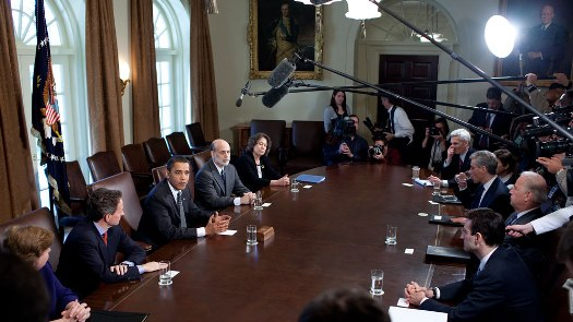 President Barack Obama, left, flanked by Treasury Secretary Timothy Geithner, and Federal Reserve Chairman Ben Bernanke, and Vice President Joseph Biden, right, receive an Economic Briefing, Monday, March 23, 2009, in the Cabinet Room of the White House in Washington.